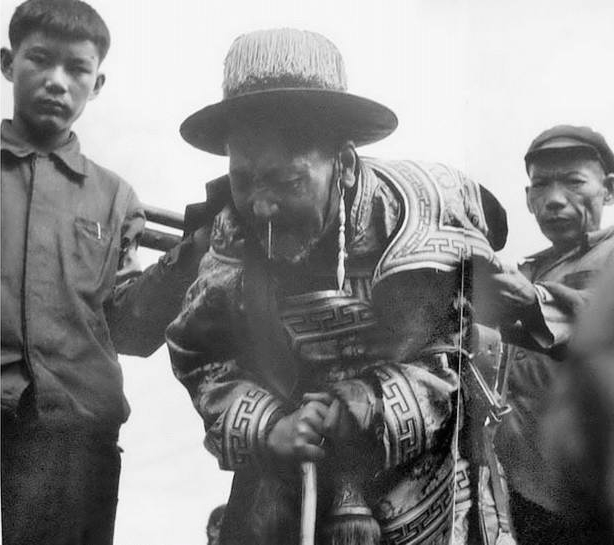 Sampho and his wife during the Cultural Revolution (retouched version)